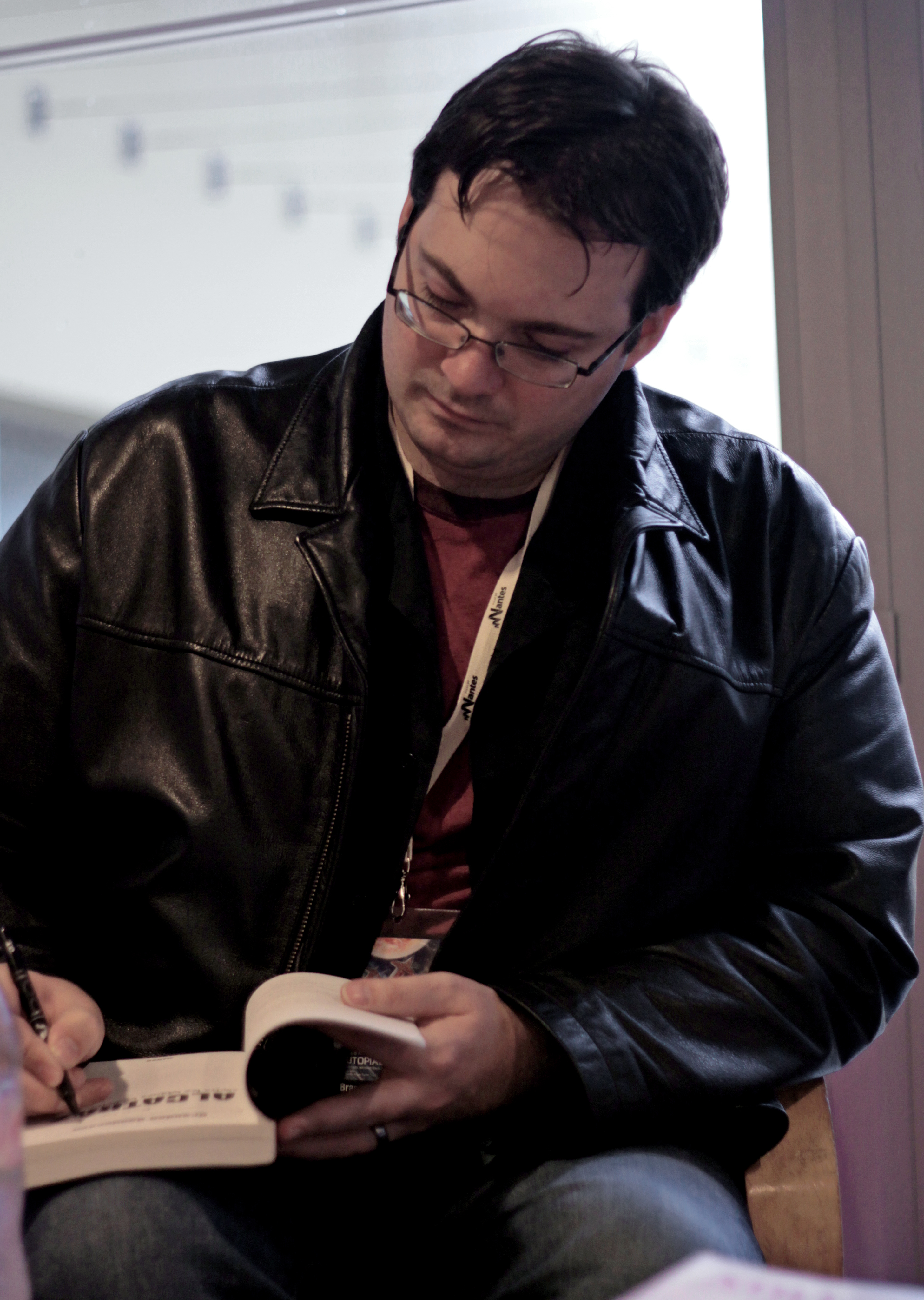 Author Brandon Sanderson signing one of this book at Utopiales 2010 (France).